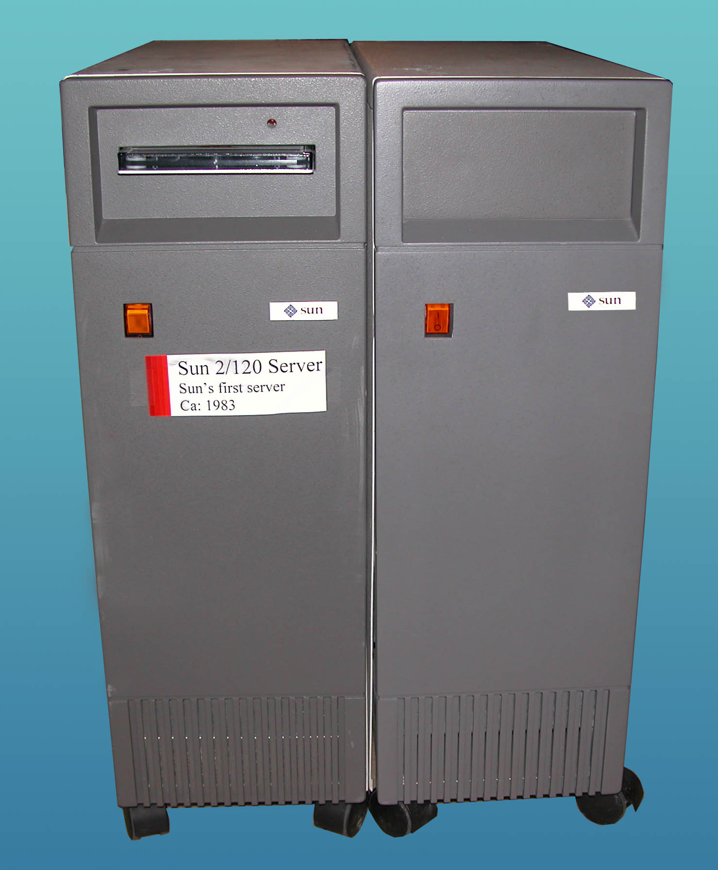 Sun Microsystems, 2/120 server and SMD storage tower.